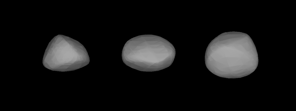 A three-dimensional model of 354 Eleonora that was computed using light curve inversion techniques.